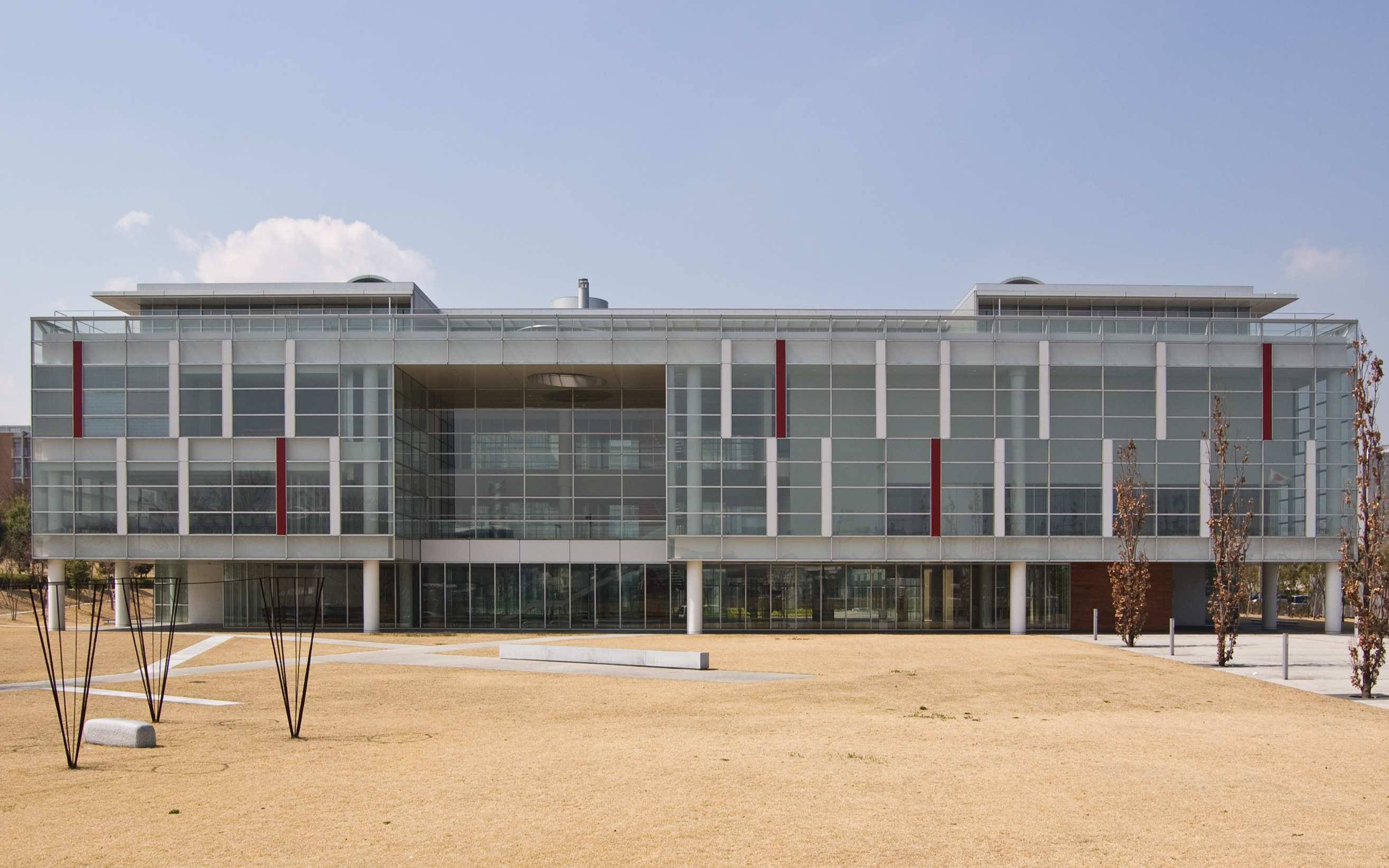 The National Institute for Japanese Language, at Tachikawa, Tokyo, Japan. Architect by Fumihiko Maki in 2005.